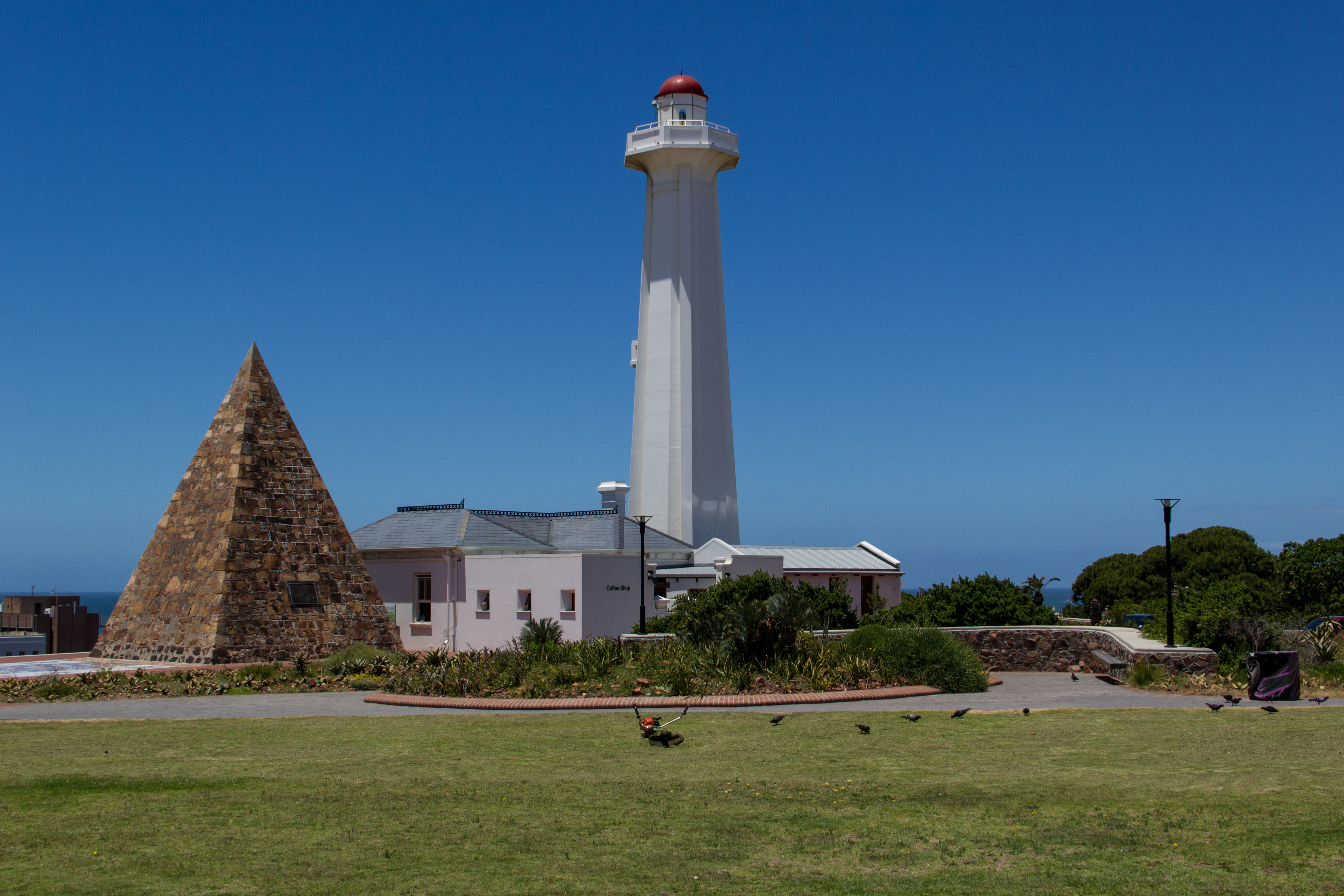 A picture of the Donkin Reserve, a monument erected in Port Elizabeth by Sir Rufane Donkin in memory of his wife Elizabeth.